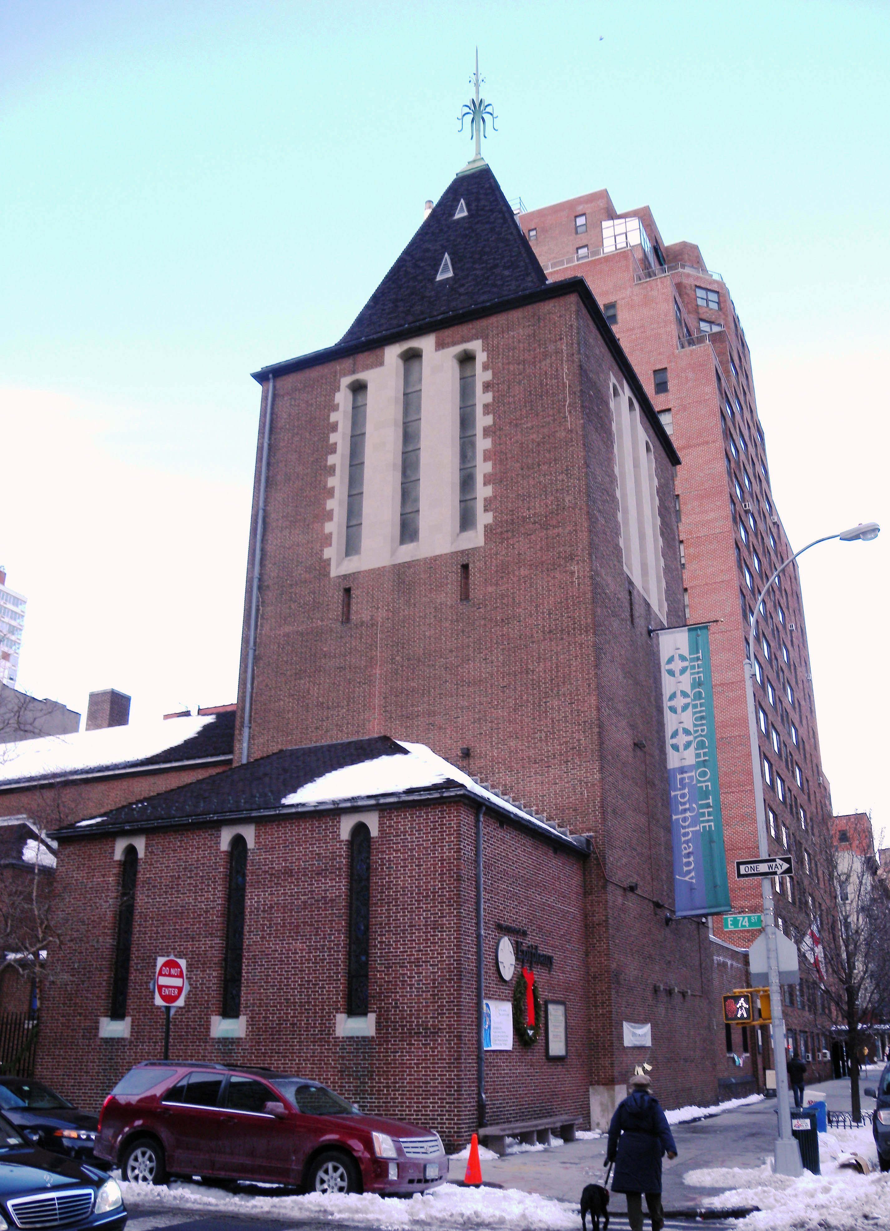 Looking north across 74th at Epiphany Church on a mostly cloudy afternoon.